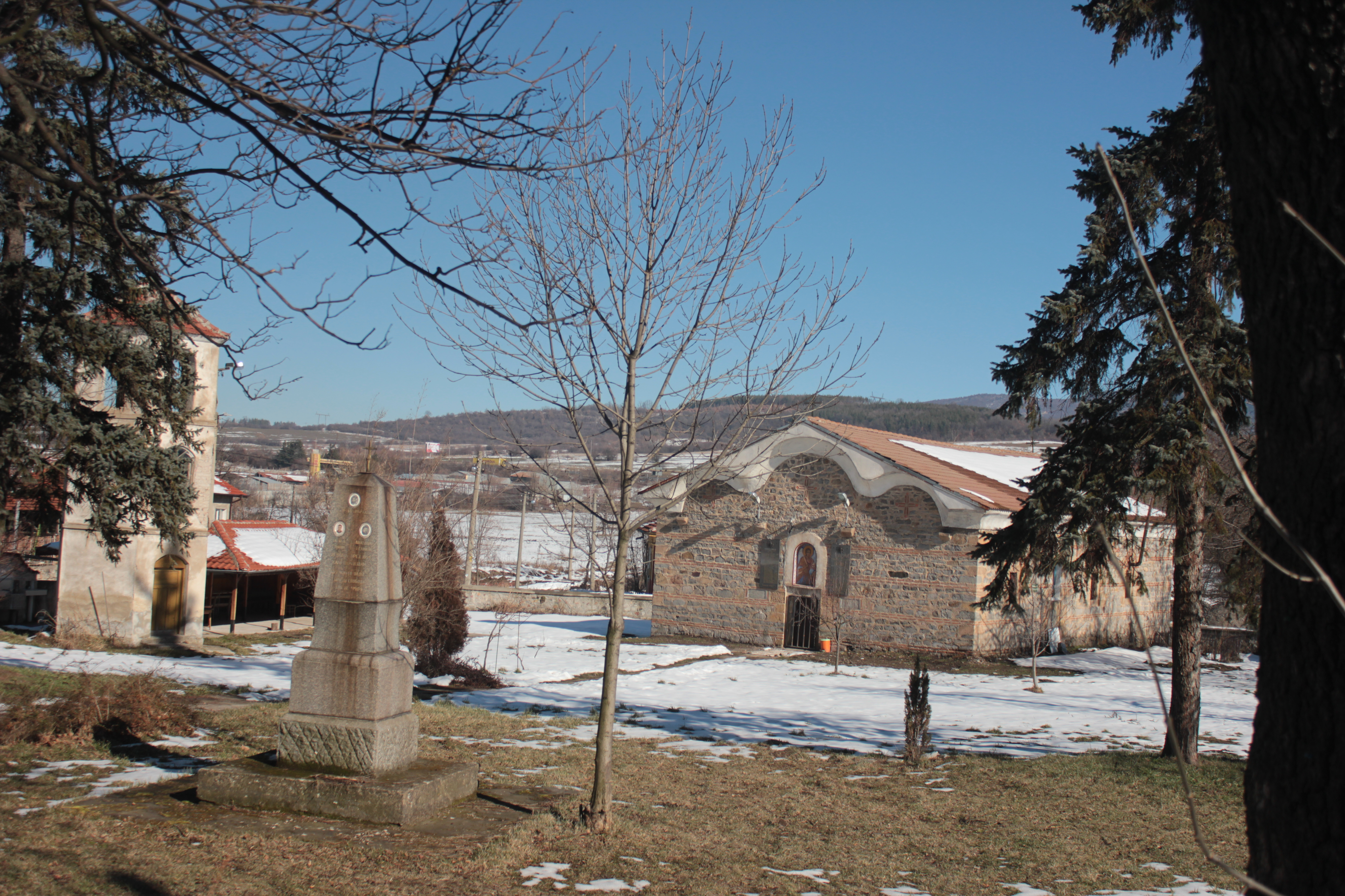 Studena (Pernik Province) Saint Arch Angel Church, 1876